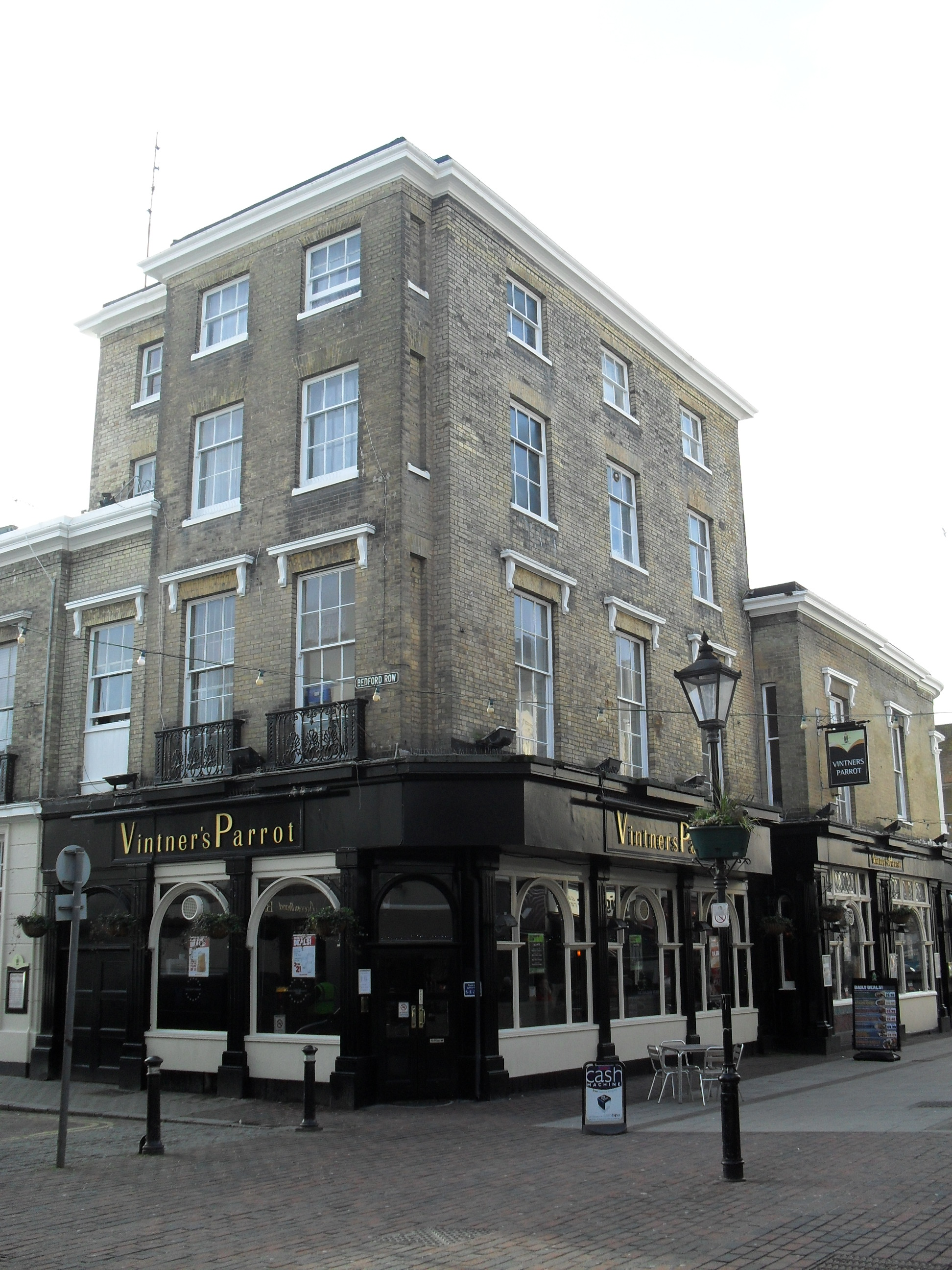 Vintners Parrot, 10–12 Warwick Street, Worthing, West Sussex, England. Built in the 1830s as a wine merchants' premises; now a pub. Listed at Grade II by English Heritage (IoE Code 433150)